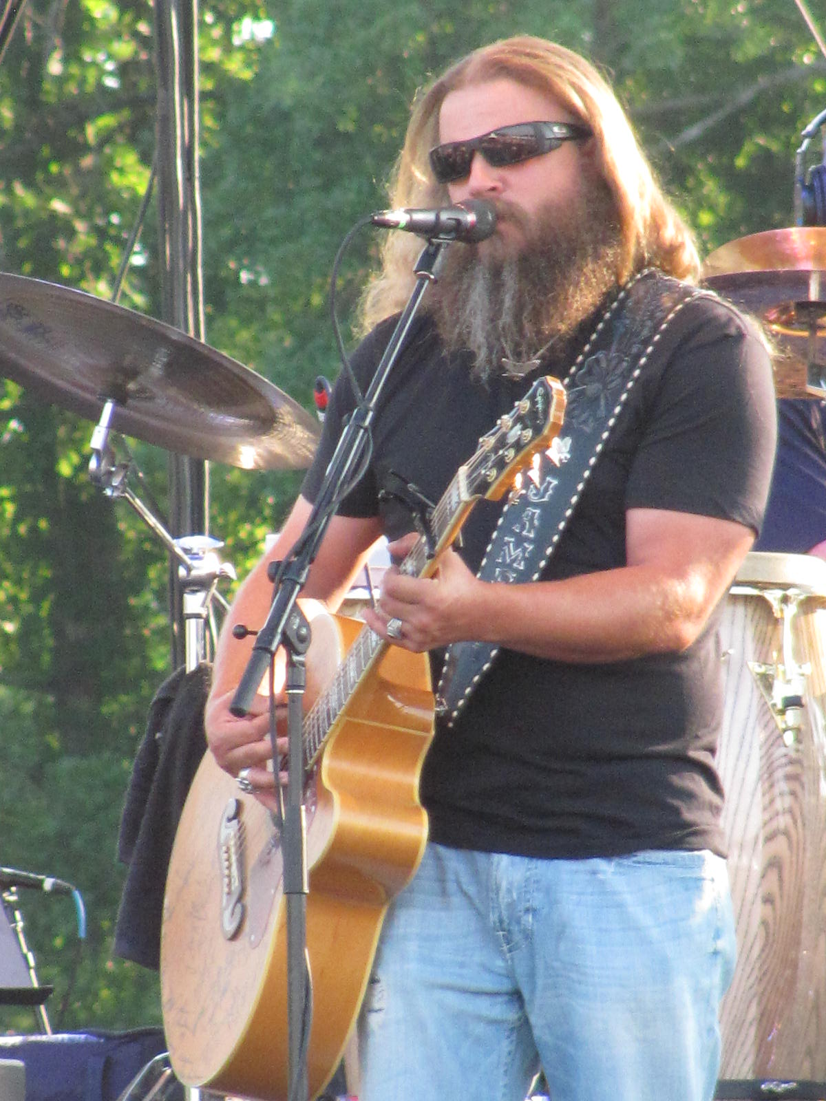 Johnson in 2013